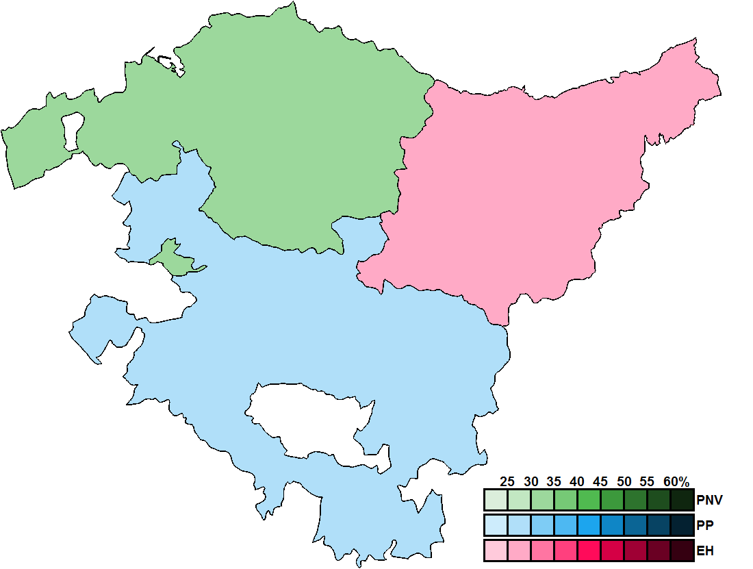 Provincial results for the 1998 Basque regional election.